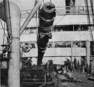 Loading the barrel of the captured German 28-cm "Amiens Gun" on to the "Dongara".